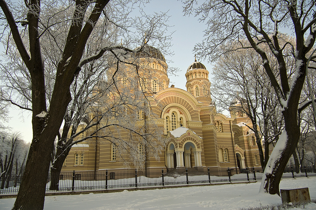 Christ's Birth Orthodox church